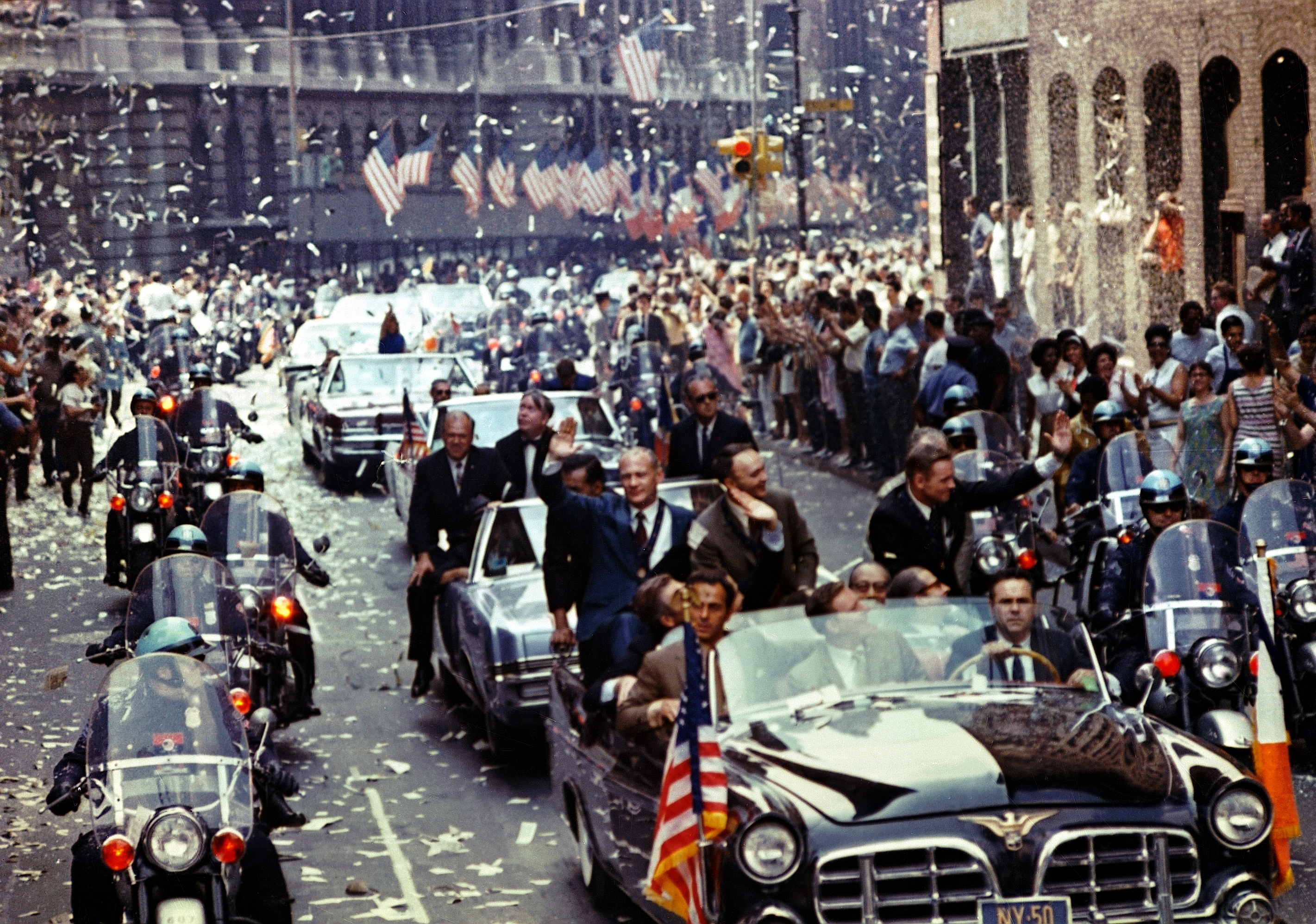 Ticker tape parade for the Apollo 11 astronauts. Location is Manhattan, New York City on the section of Broadway known as the "Canyon of Heroes". Pictured in the lead car, from the right, are astronauts Neil A. Armstrong, Michael Collins and Edwin E. Aldrin, Jr.